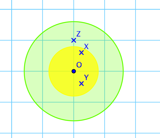 Illustration of a proof Minkowski Theorem